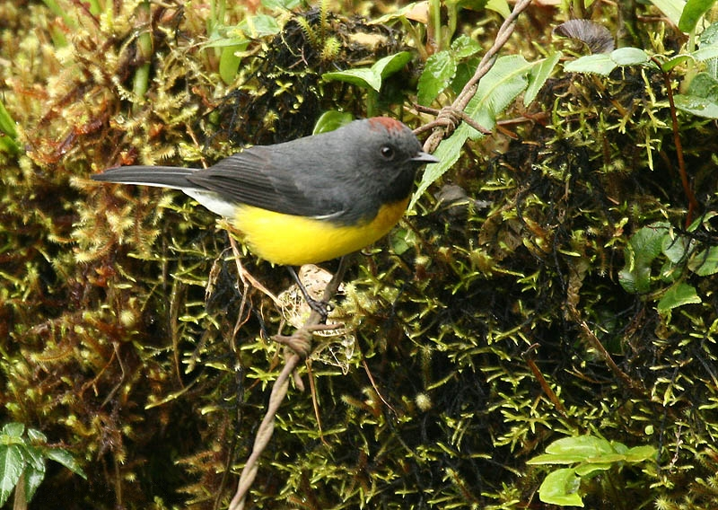 Slate-throated Redstart (Myioborus miniatus), or, more accurately, the Slate-throated Whitestart at Old Nono-Mindo Rd, NW Ecuador.